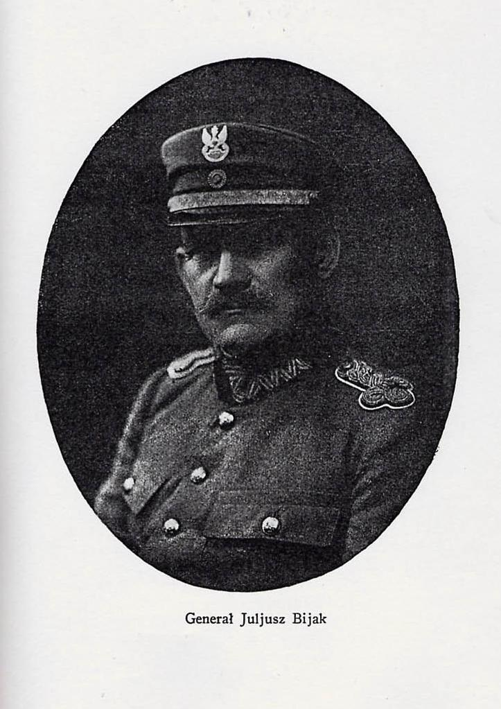 A photograph of a relative that has been in the family